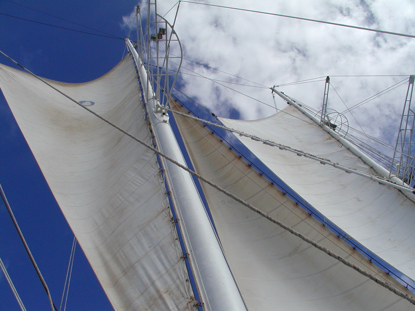 Rig of the fourmasted stay sail schooner Polynesia